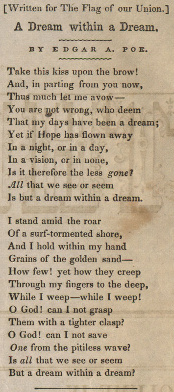 "A Dream within a Dream" by Edgar Allan Poe, The Flag of Our Union, v. 4, no. 13, March 31, 1849.